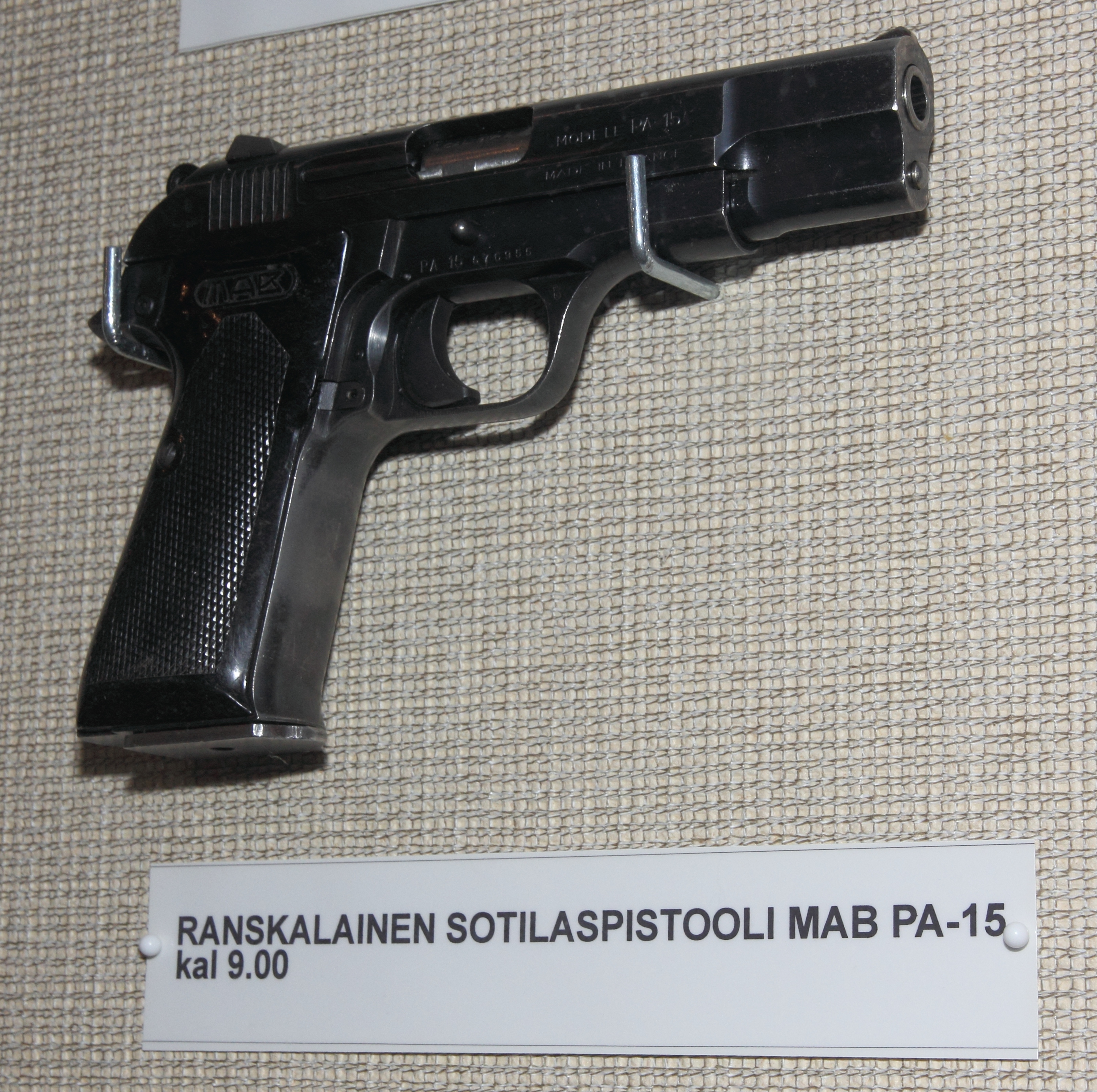 9 mm MAB PA-15 pistol in Imatra Border Museum.